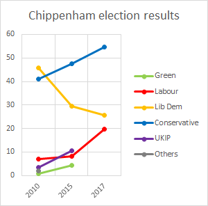 Chippenham election results